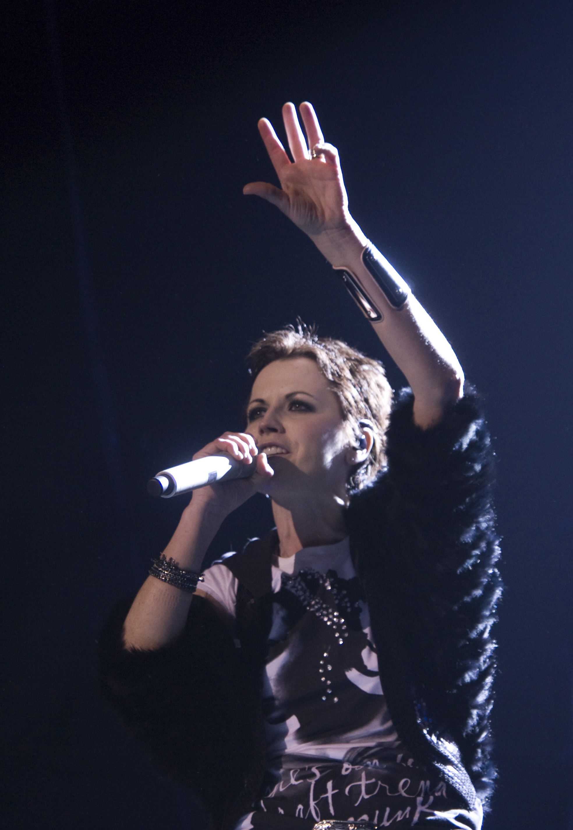 The Cranberries live in Barcelona 2010-03-13